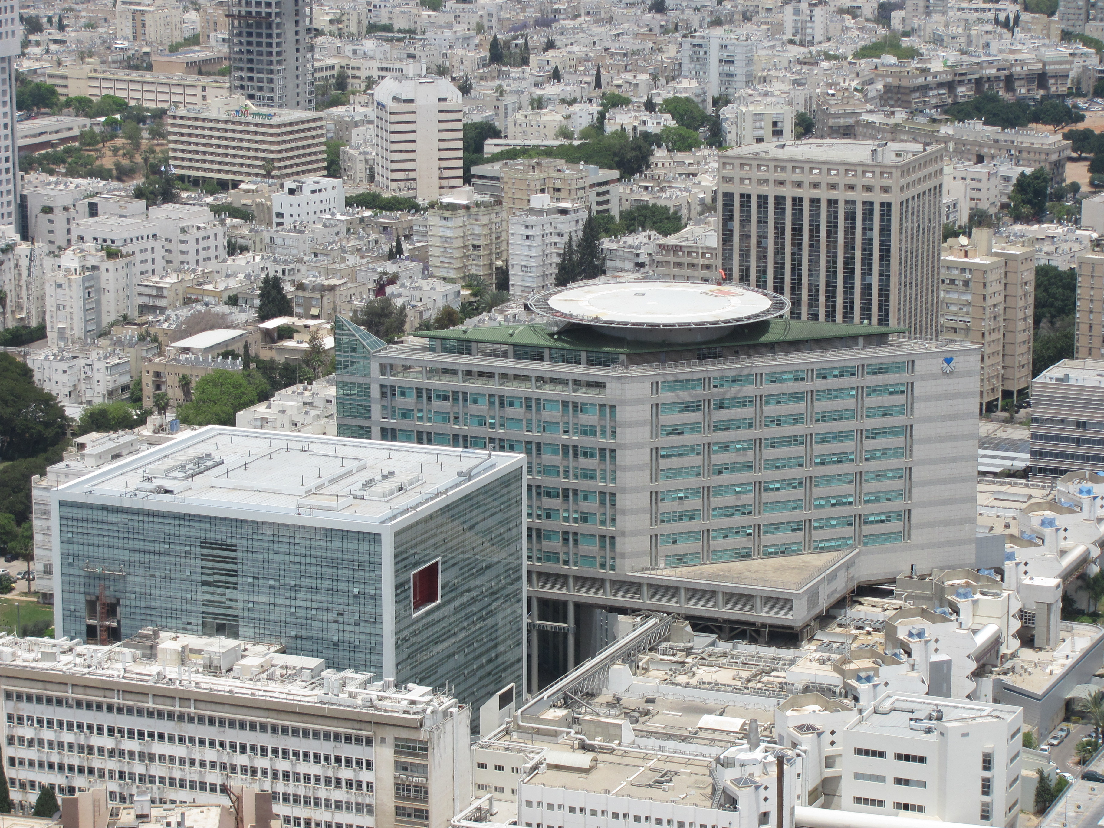 Ichilov hospital and Sourasky Medical Centre in Tel Aviv.